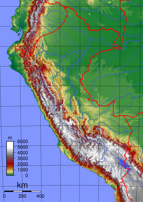 Topographic map of Peru. Created with GMT from GLOBE data.